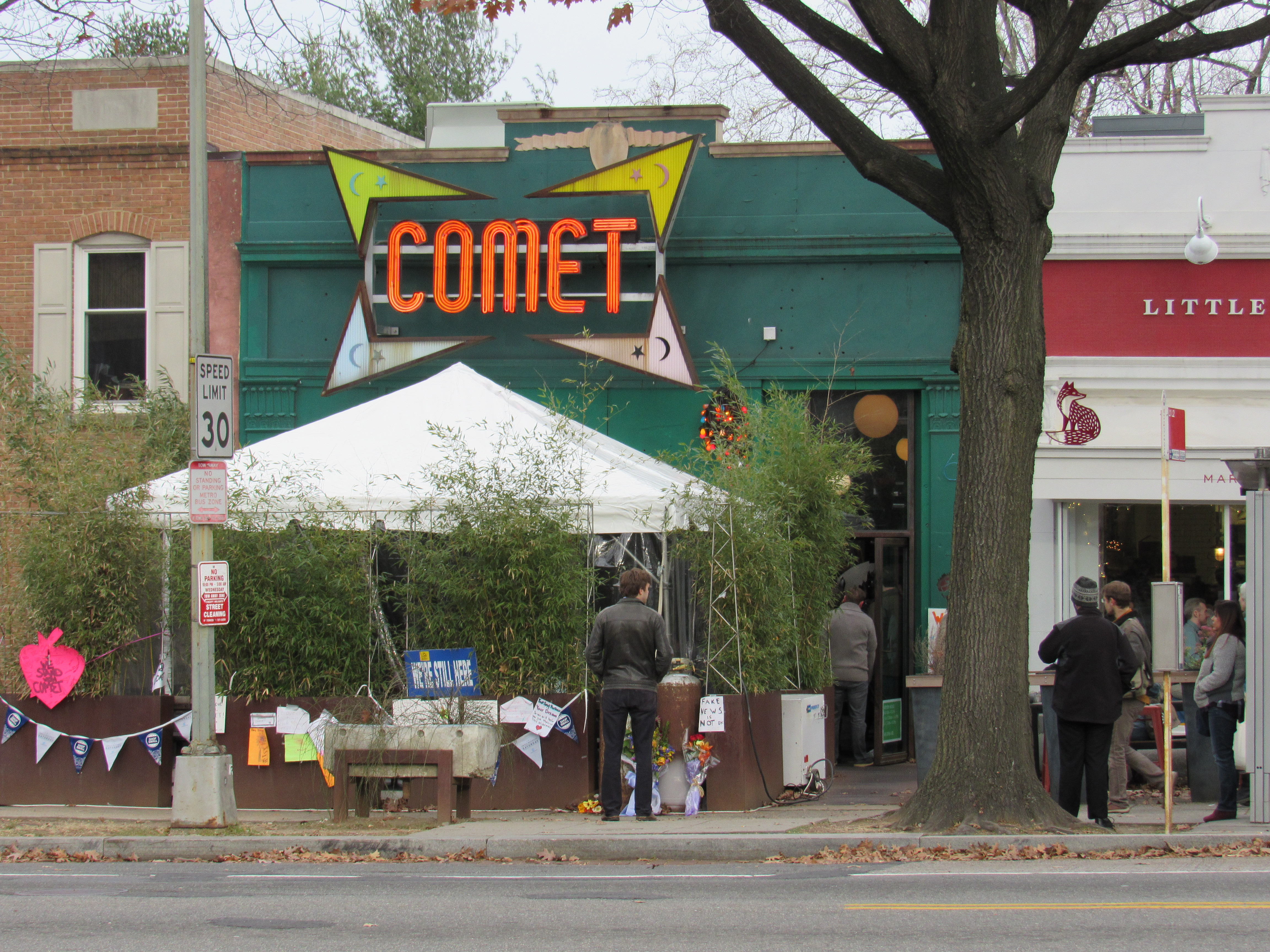 Comet Ping Pong in Northwest Washington, D.C.